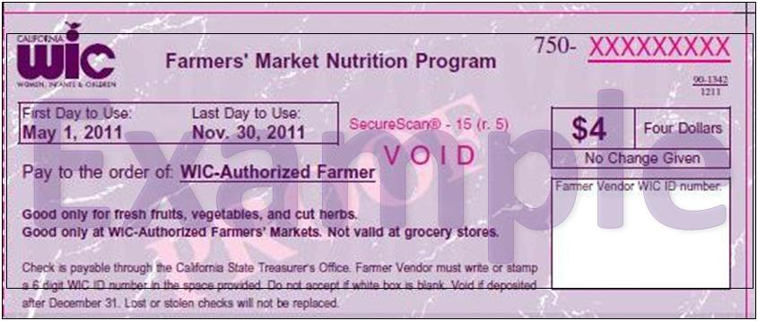 California WIC Farmers' Market Nutrition Program (FMNP) Check Example Image